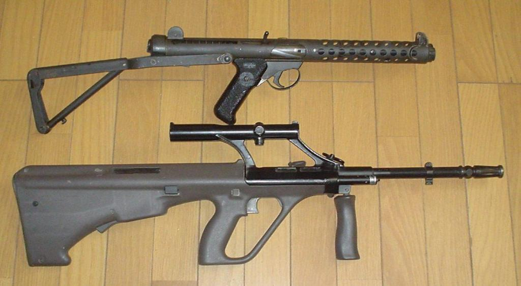 Size comparison the Sterling SMG and AUG.